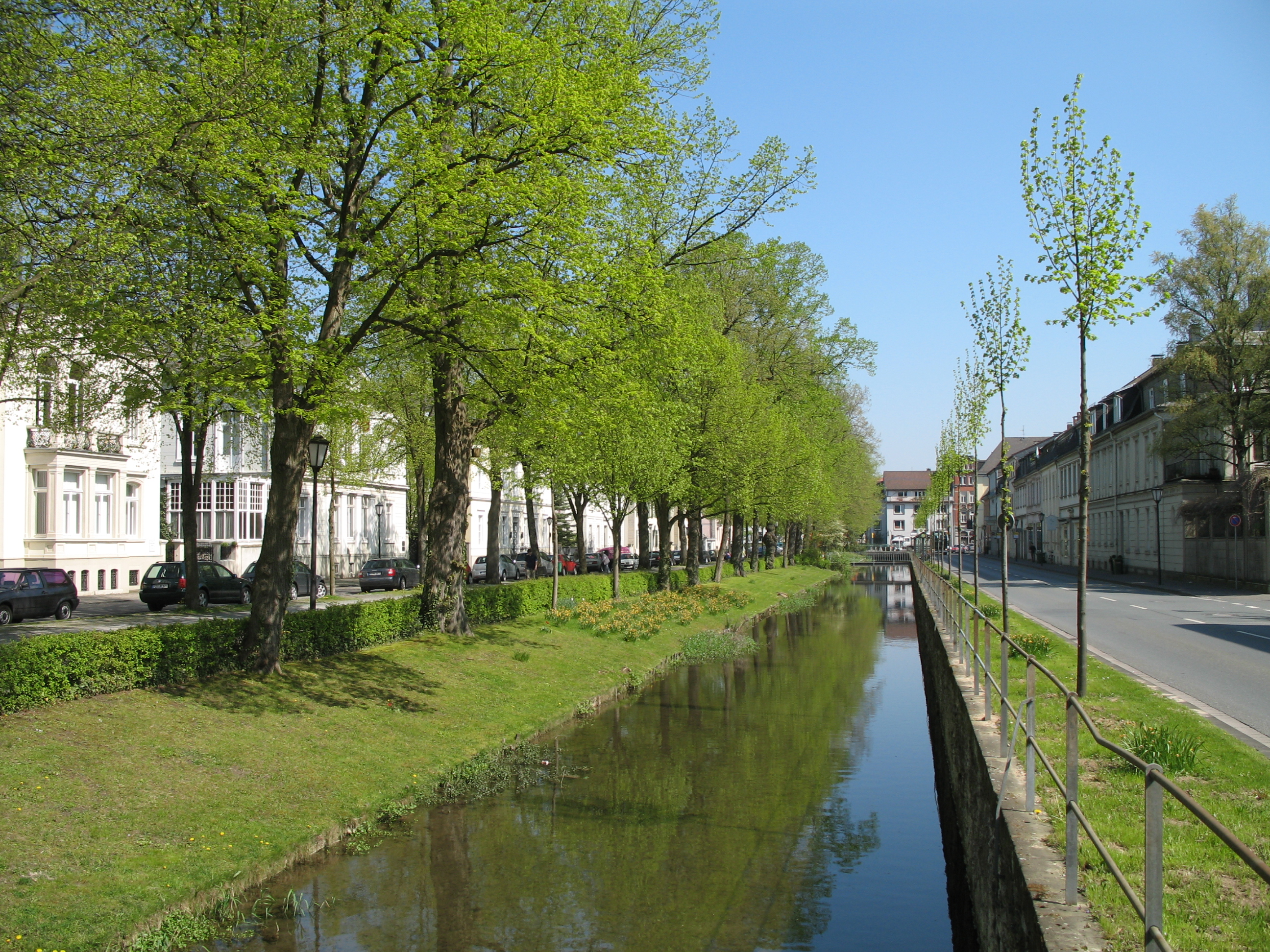 Detmold (Germany): Friedrichstaler Kanal (canal) and Neustadt (street), near the Palaisgarten